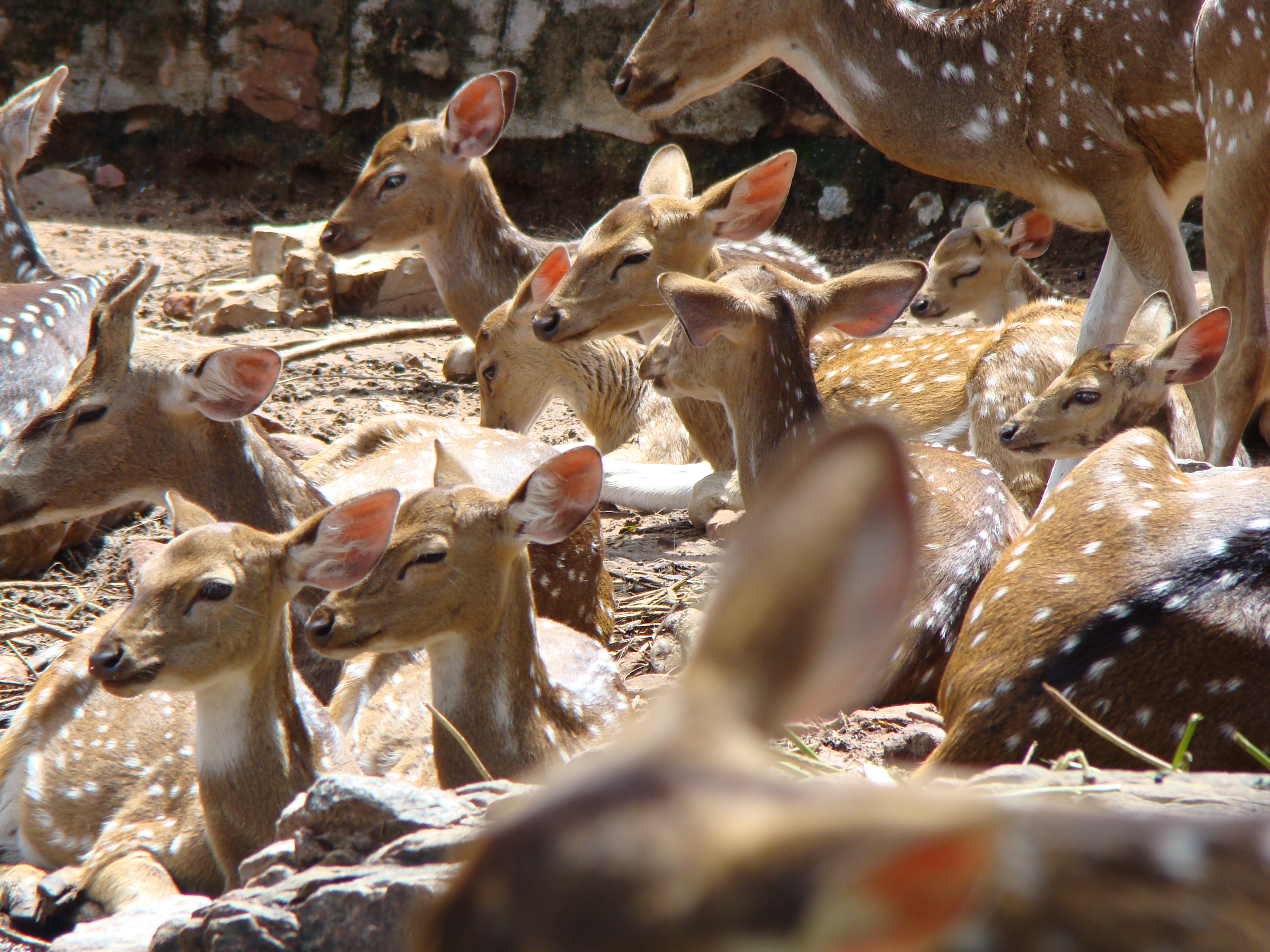 Spotted deer reared maintained by the temple authorities in fenced enclosures